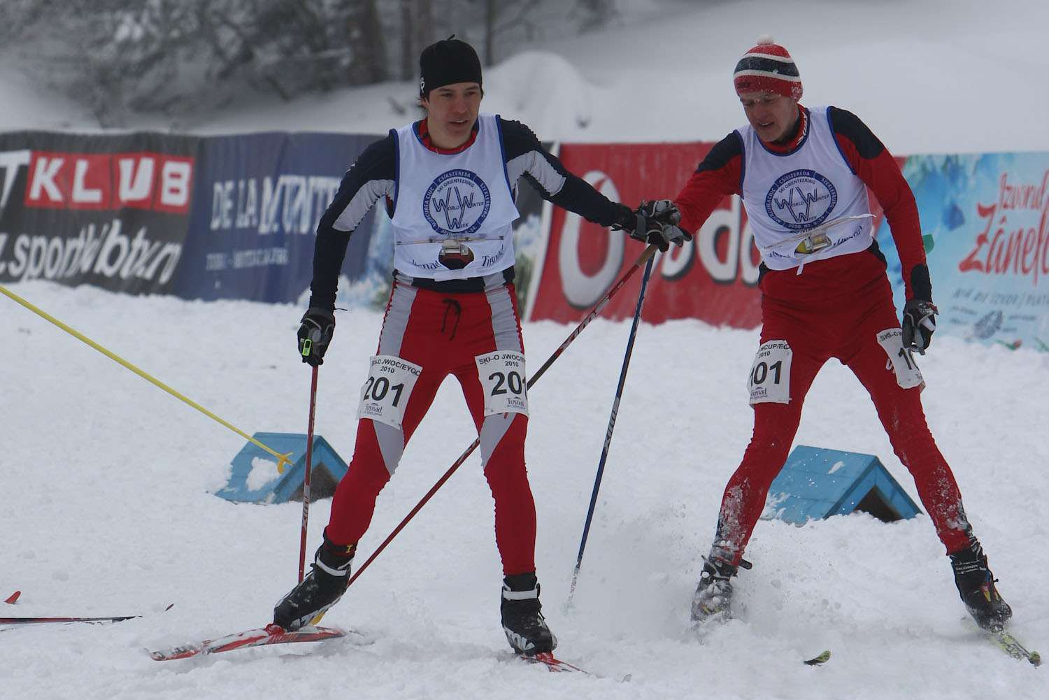 Russian team in relay. Andrey Grigoryev (right) and A. Lamov (left). Ski-EOC 2010